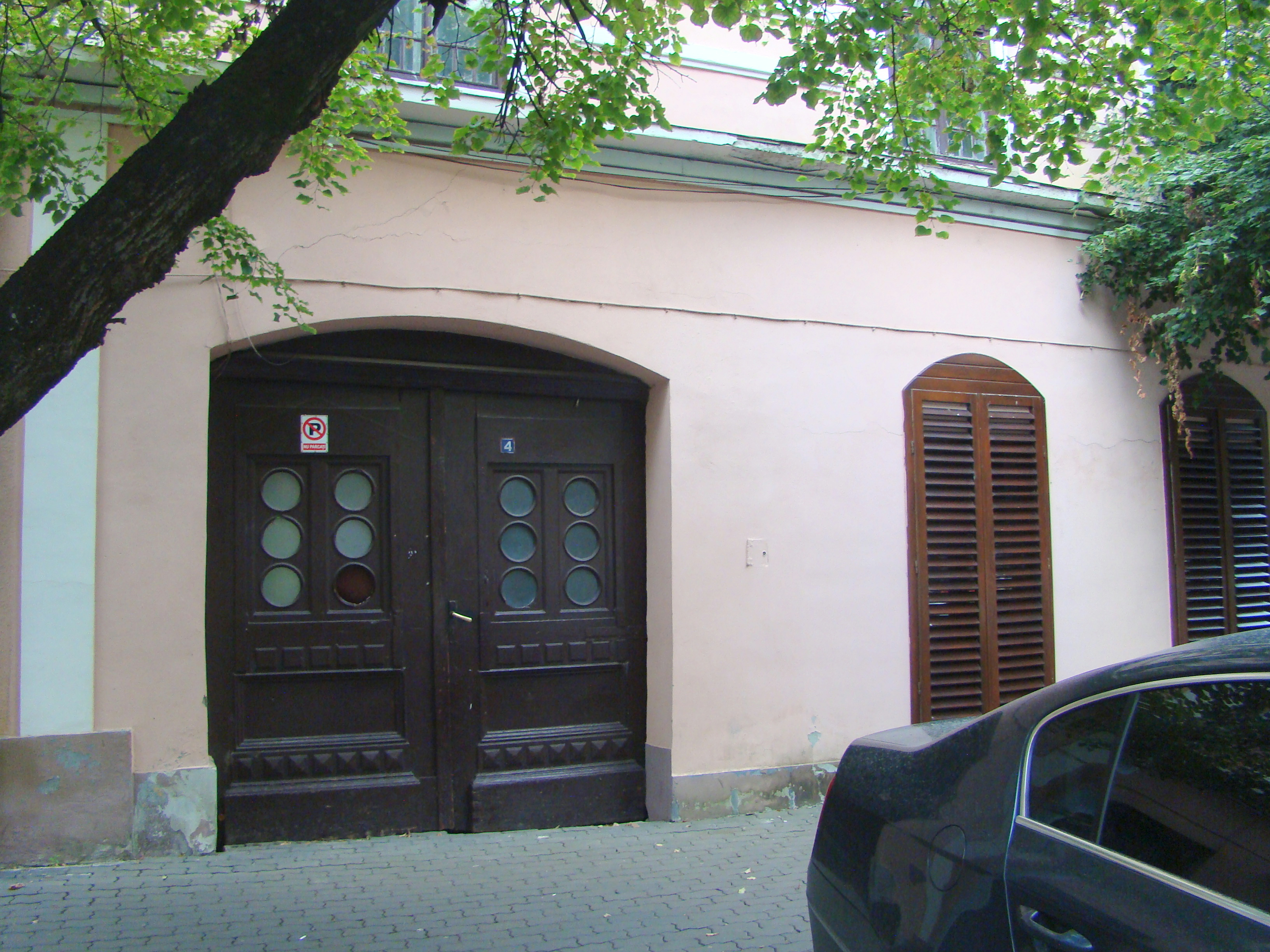 House, historic monument, in Bistrița, Piața Centrală 4